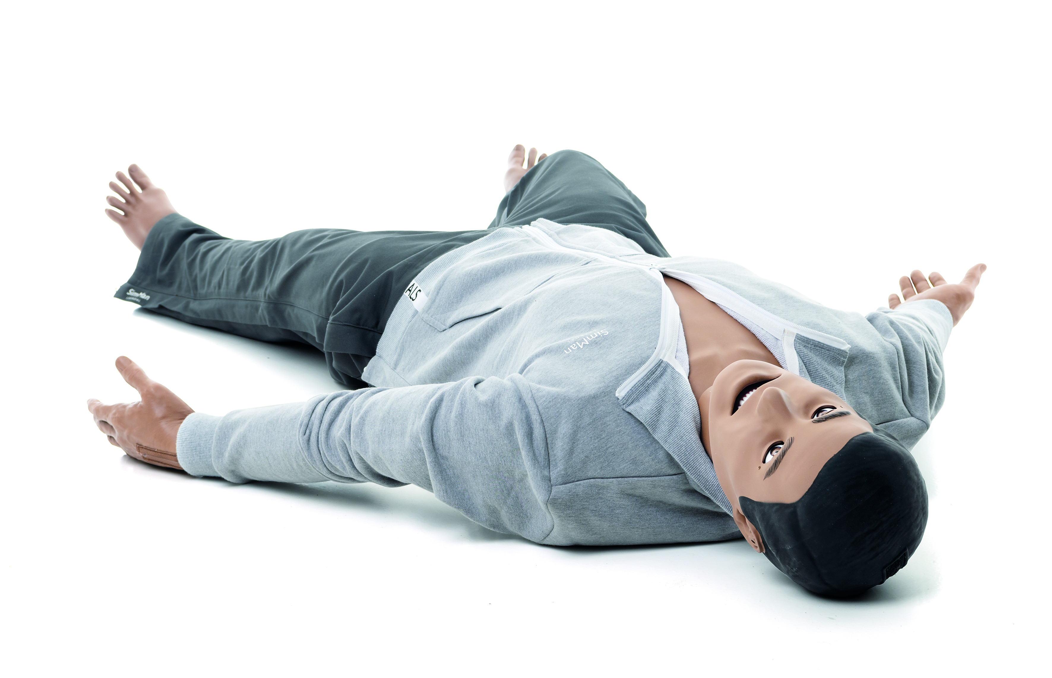 SimMan 3G simulator